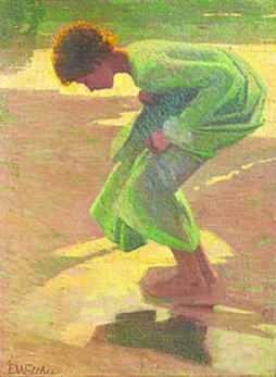 Girl on the water